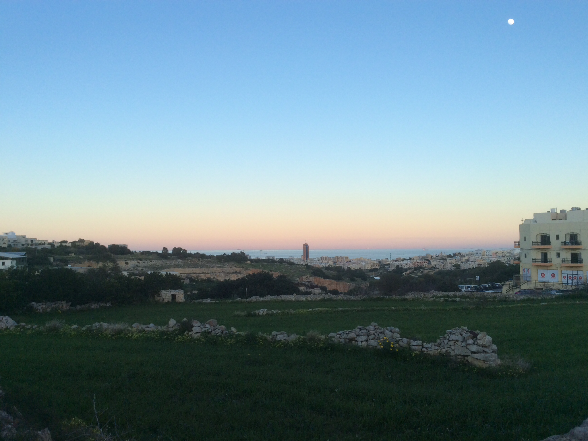 Portomaso as seem from San Gwann